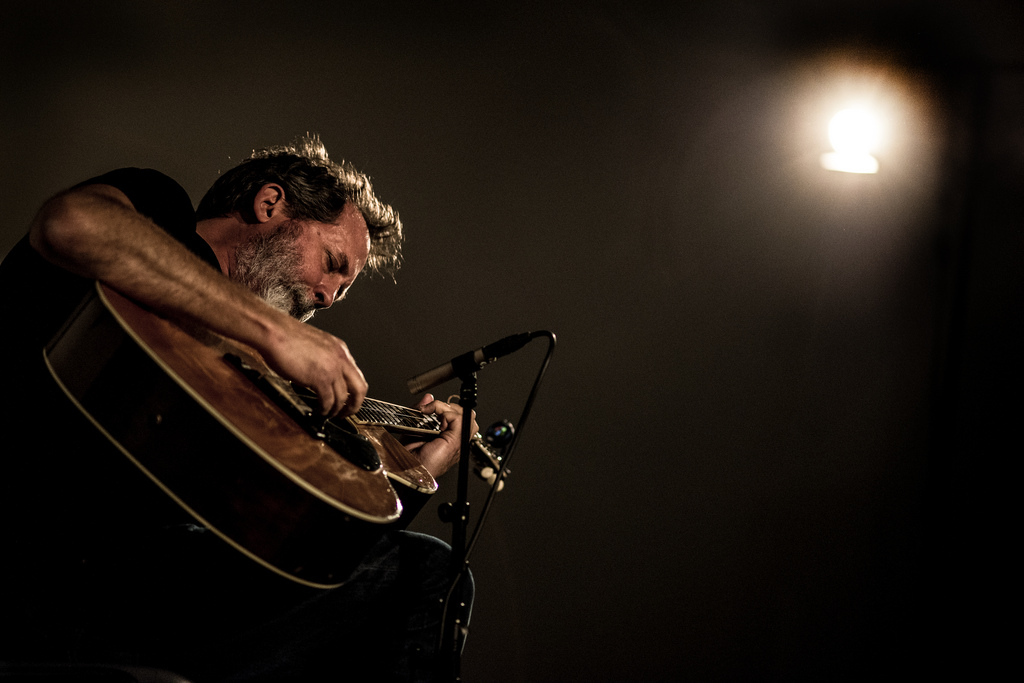 Guitarist Bill Orcutt performing at Kunsthall Oslo, Norway